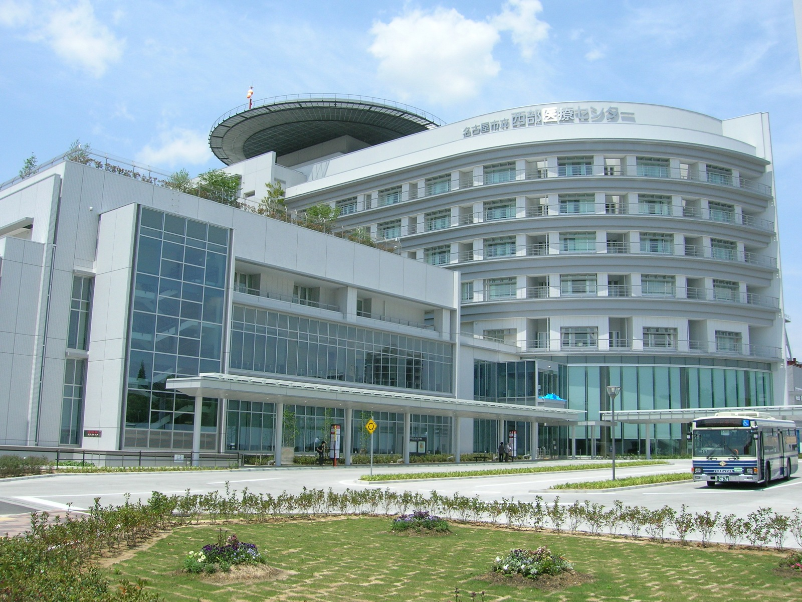 Nagoya City West Medical Center. Loc: Nishi-ku, Nagoya city, Aichi Prefecture, Japan. 名古屋市立西部医療センター 撮影場所 愛知県名古屋市西区・クオリティライフ21城北